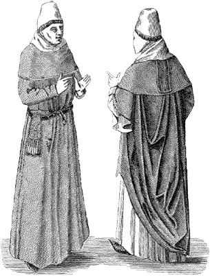 Rector of the University of Paris and Doctor of the Sorbonne Caption: RECTOR OF THE UNIVERSITY OF PARIS. DOCTOR OF THE SORBONNE.